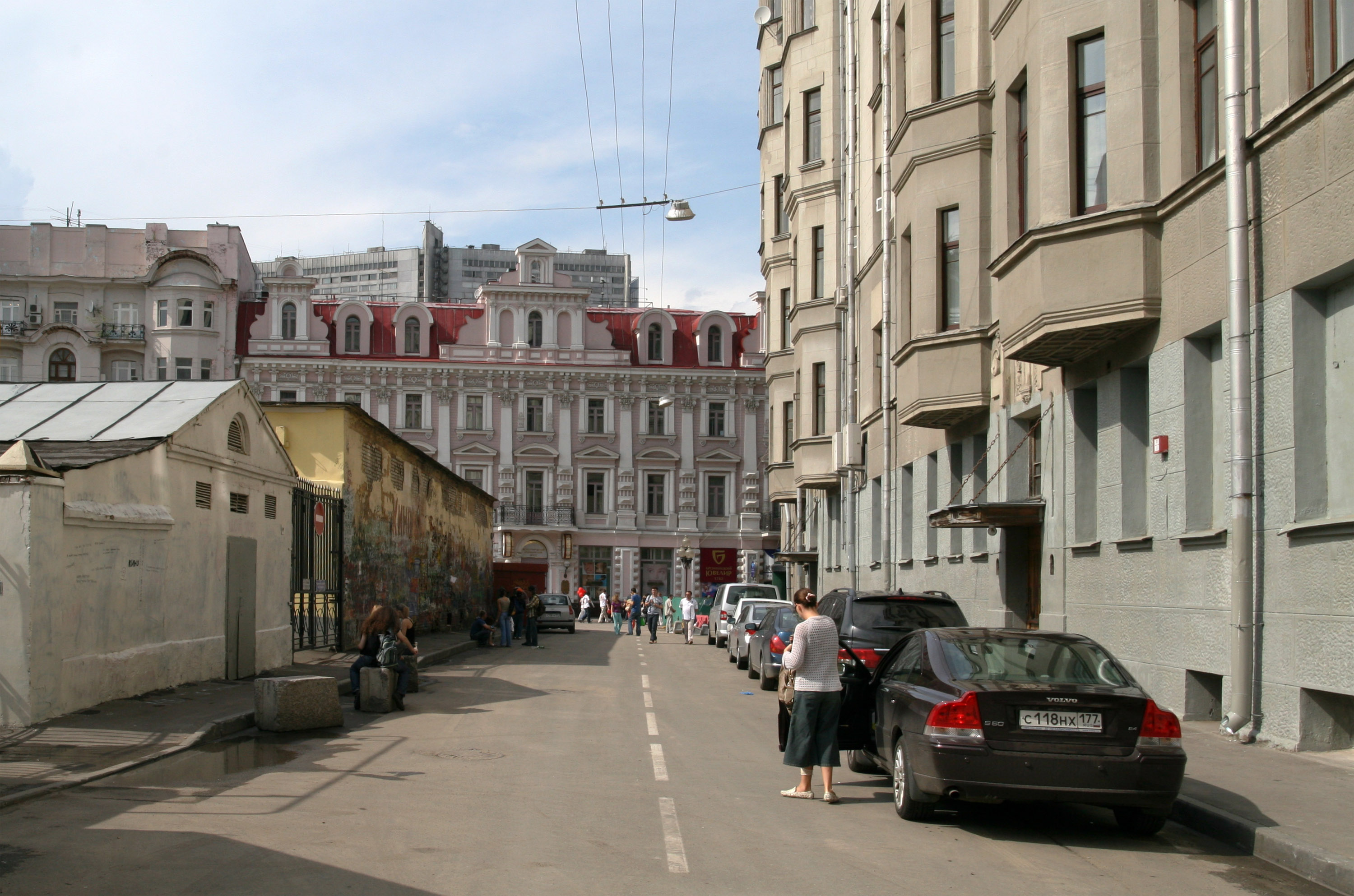 Krivoarbatsky pereulok